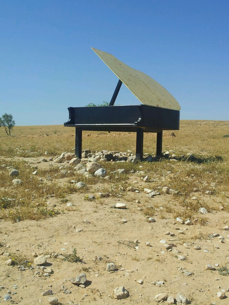 The statue "A piano", by Avraham Peleg, Sculptures Road in Hazerim, The Negev, Israel